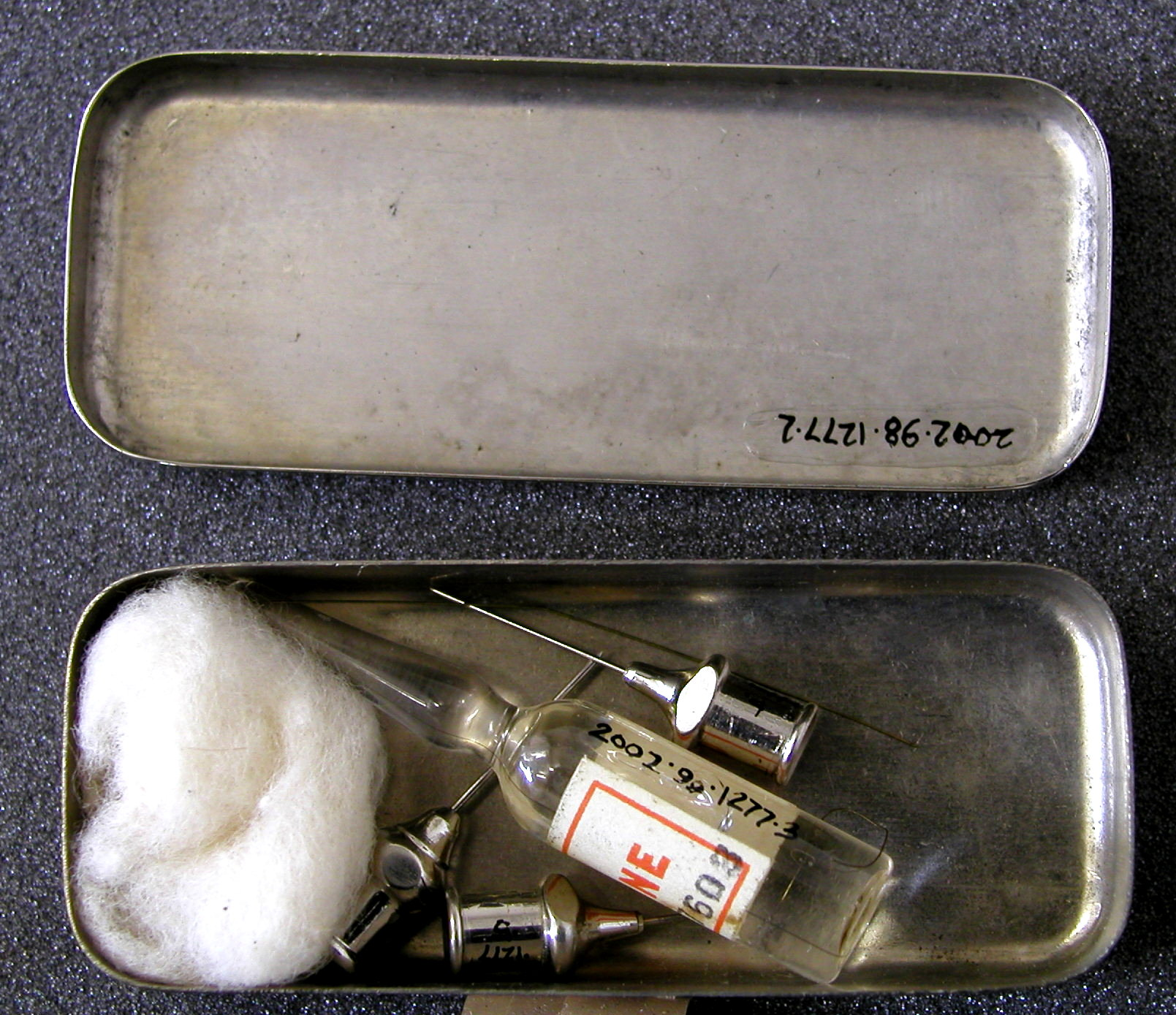 Medical equipment in metal container moulded undecorated stainless steel box with removable lid contains- small clear glass ampoule of clear colourless liquid, white paper label with red writing "1.7cc CORAMINE - OP - 67603" small ball of cotton wool piece of fine (brass) wire three hypodermic needles with stainless steel (bulbs)